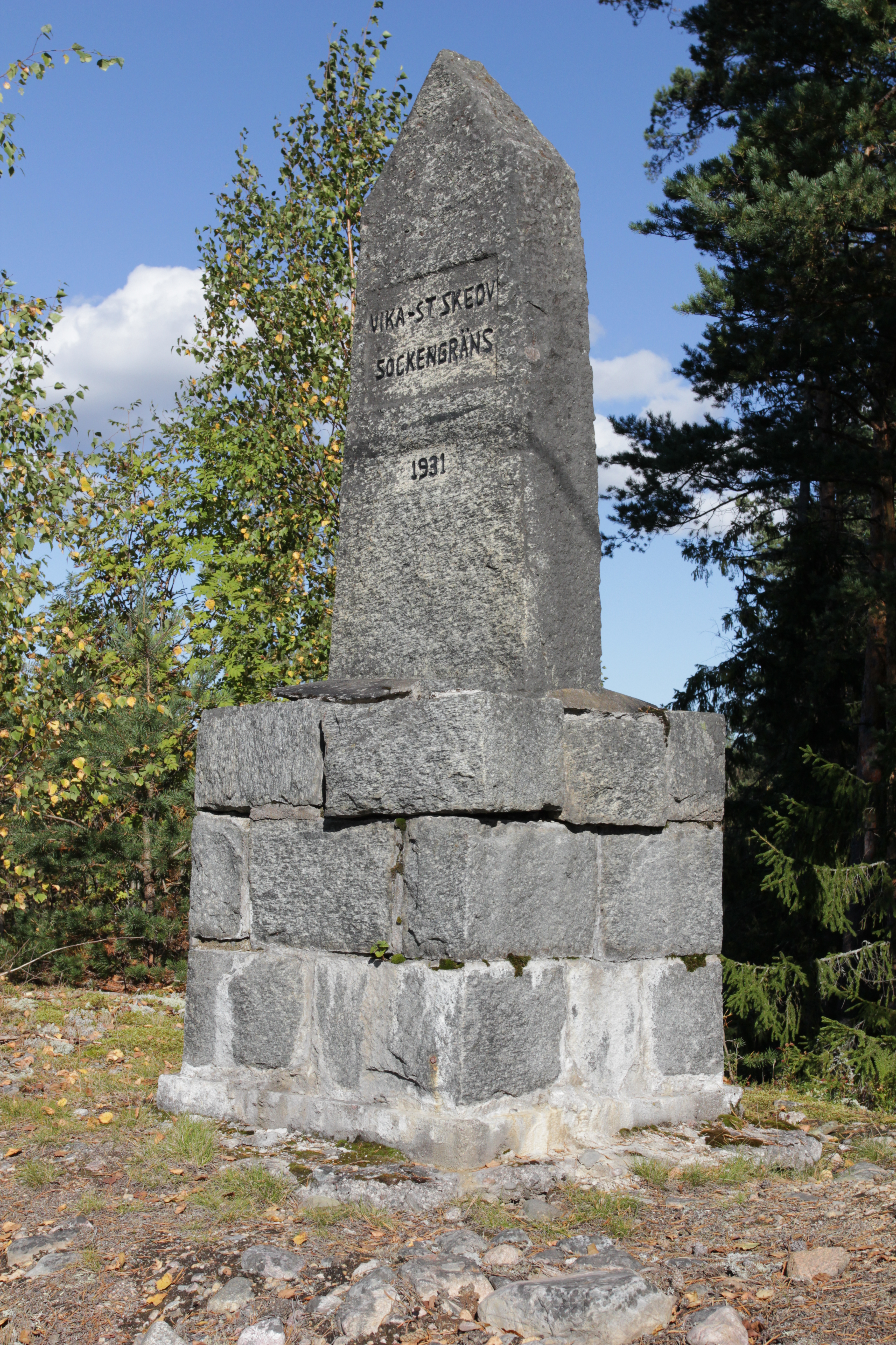 Boundary stone at regional road 293, near Lilla Klingsbo, marking the border between Vika and Stora Skedvi parishes, Sweden.